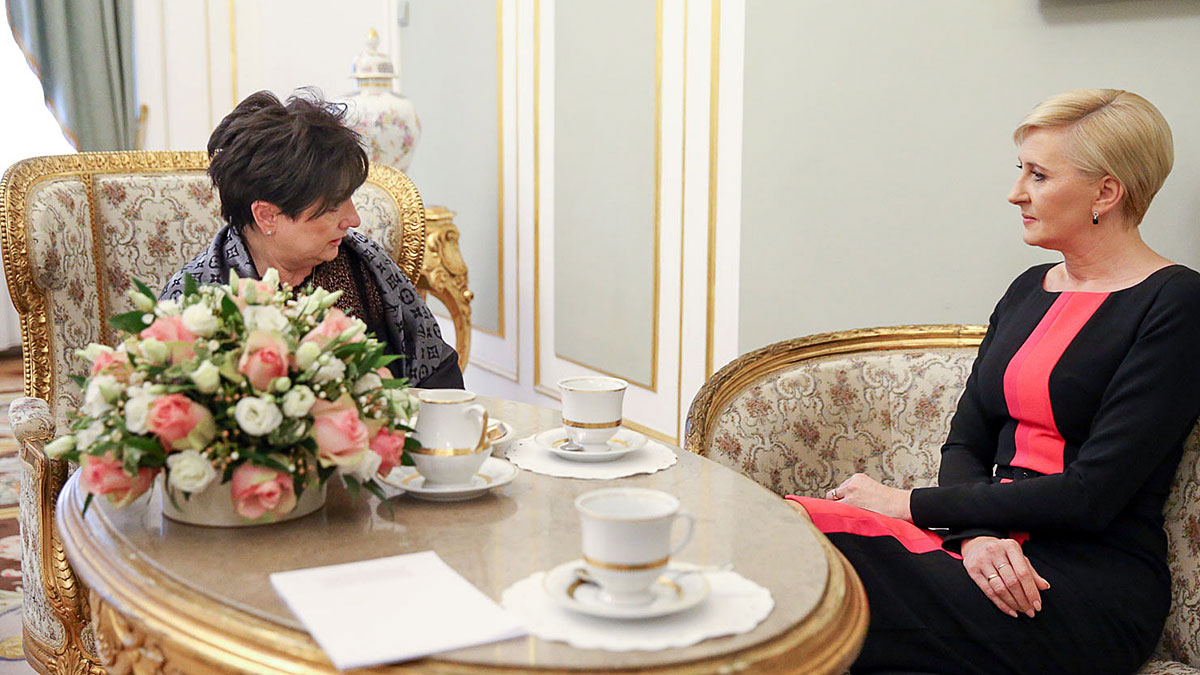 Dorota Andraka with Agata Kornhauser-Duda, First Lady of Poland at the Presidential Palace in Warsaw